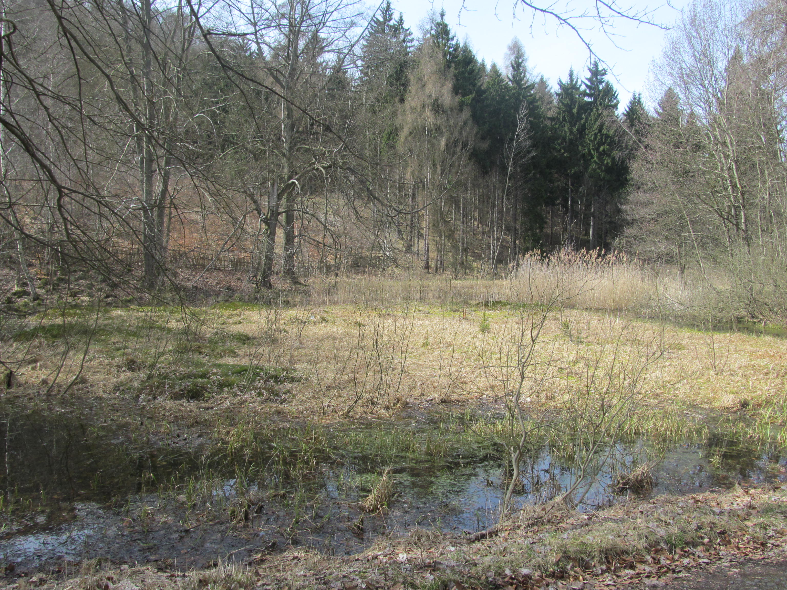 Educational trail Březina - nature reserve Peatbog Březina